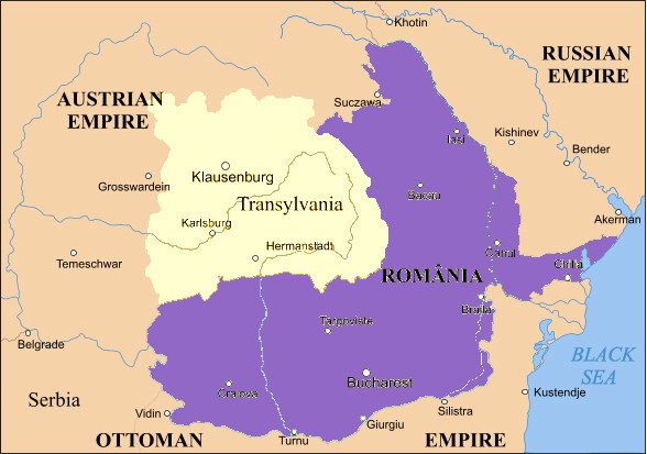 Romania 1859-1878